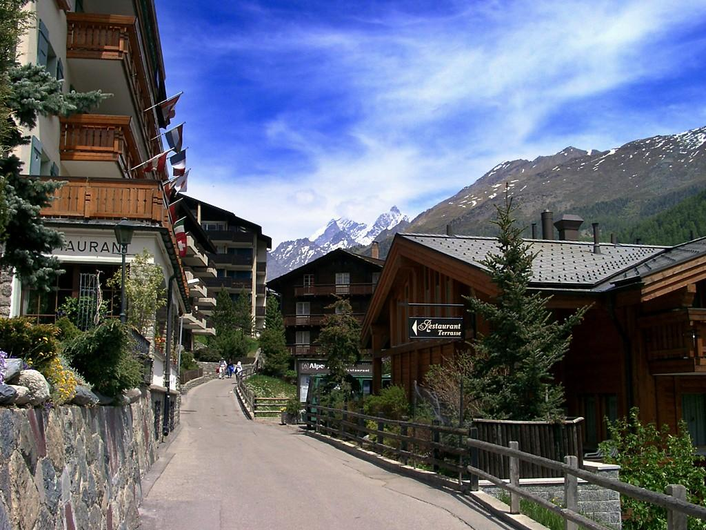 Zermatt